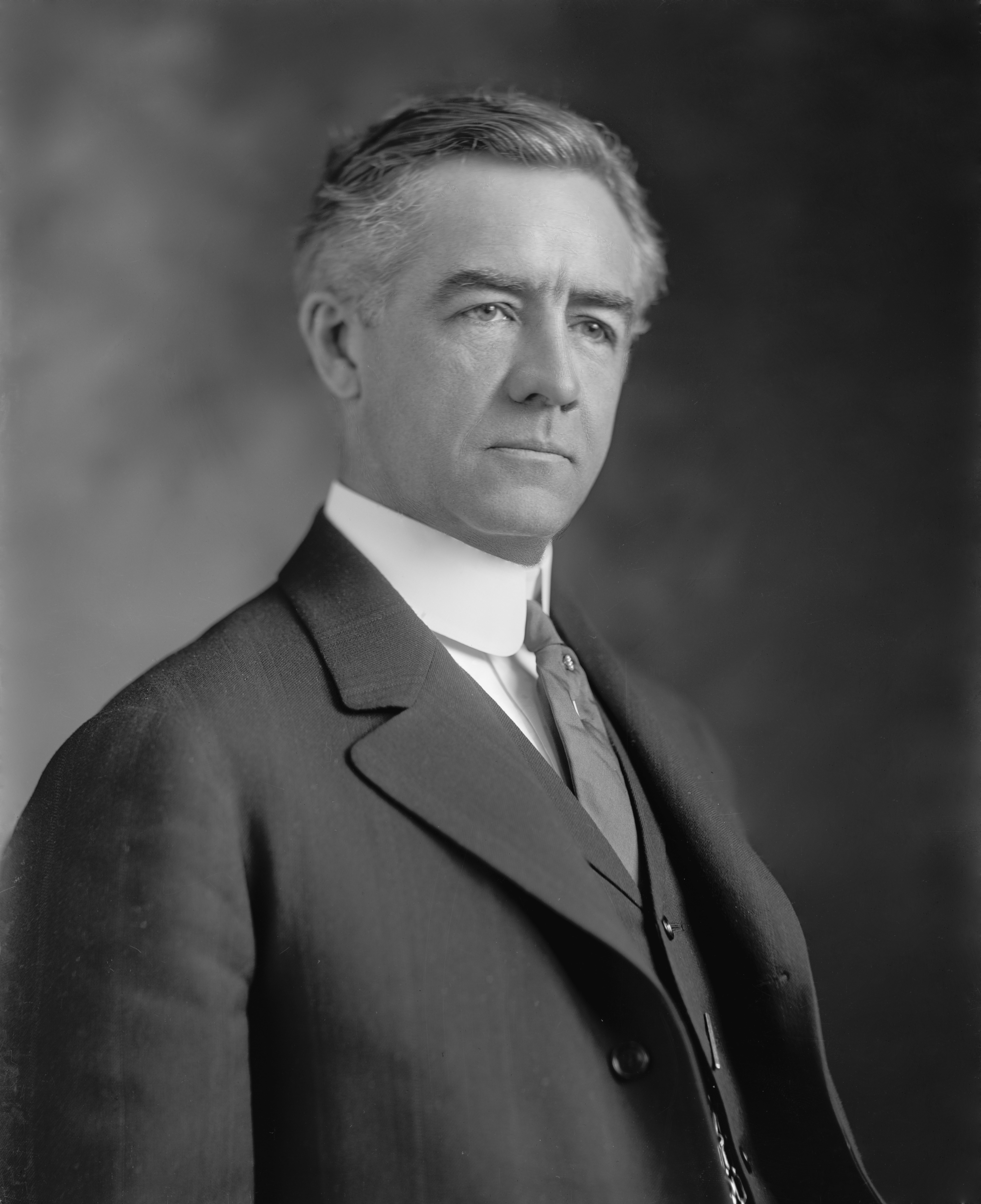 Title: HITCHCOCK, G.M. HONORABLE Abstract/medium: 1 negative : glass ; 8 x 10 in. or smaller